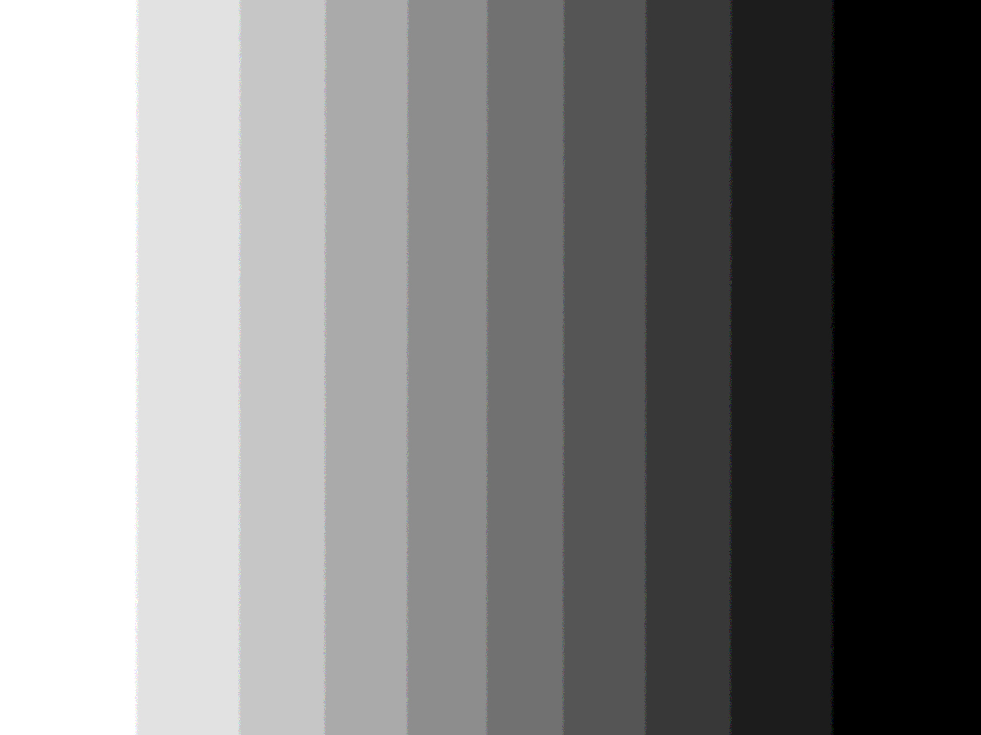 This is a 10 step gray scale useful to calibrate monitors and scanners.